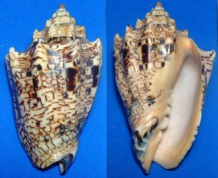 A shell of Voluta ebraea (Sorbeoconcha: Volutidae) marine gastropod shell. A 104 mm specimen from my personal collection.